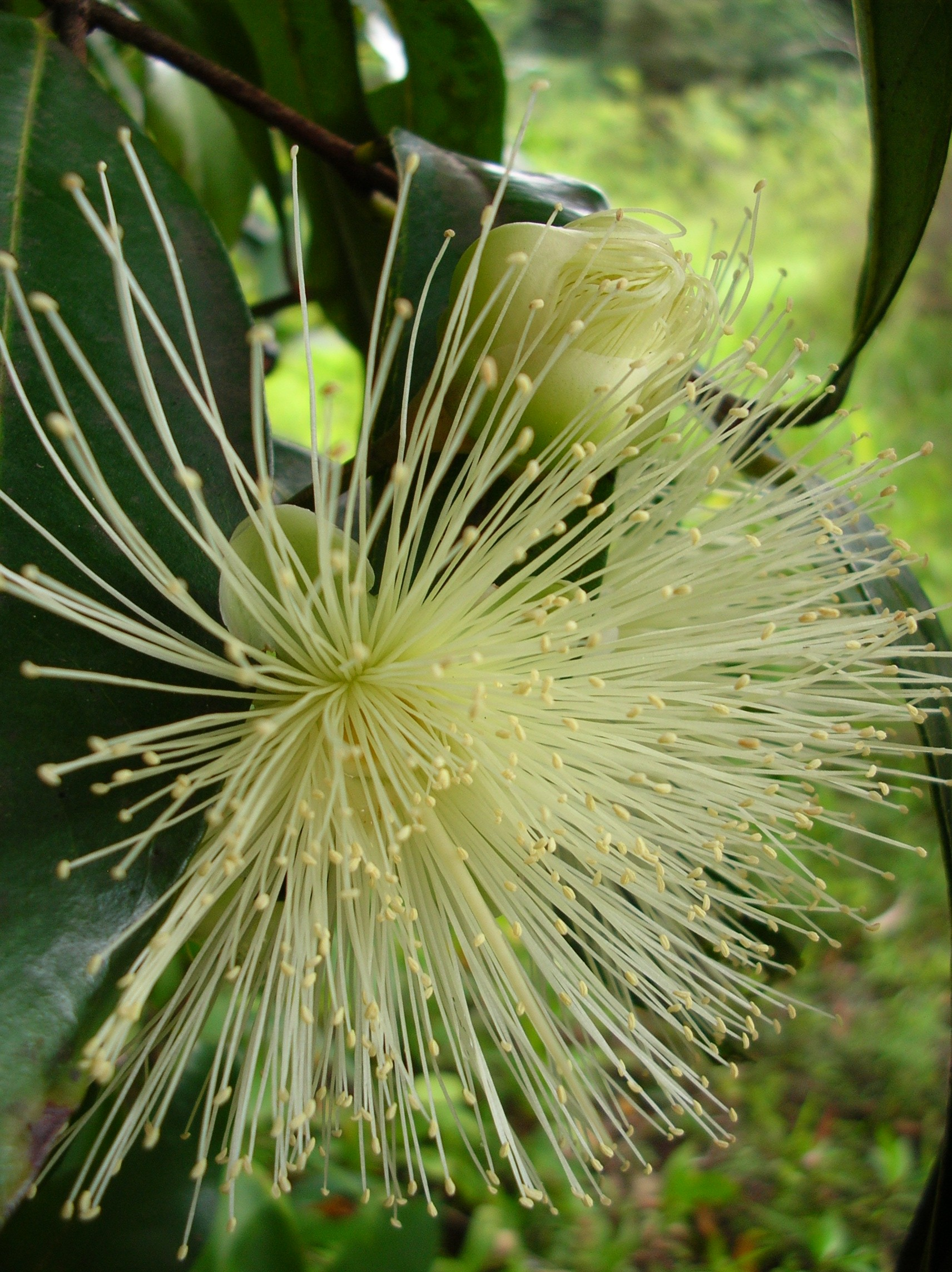 Syzygium jambos (flowers). Location: Maui, Hana Hwy